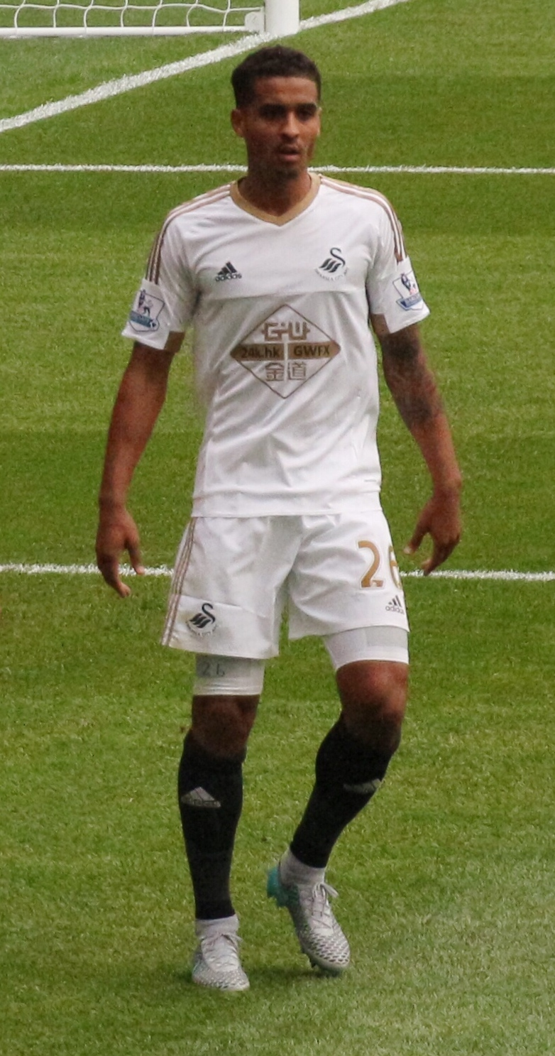 Chelsea 2 Swansea 2